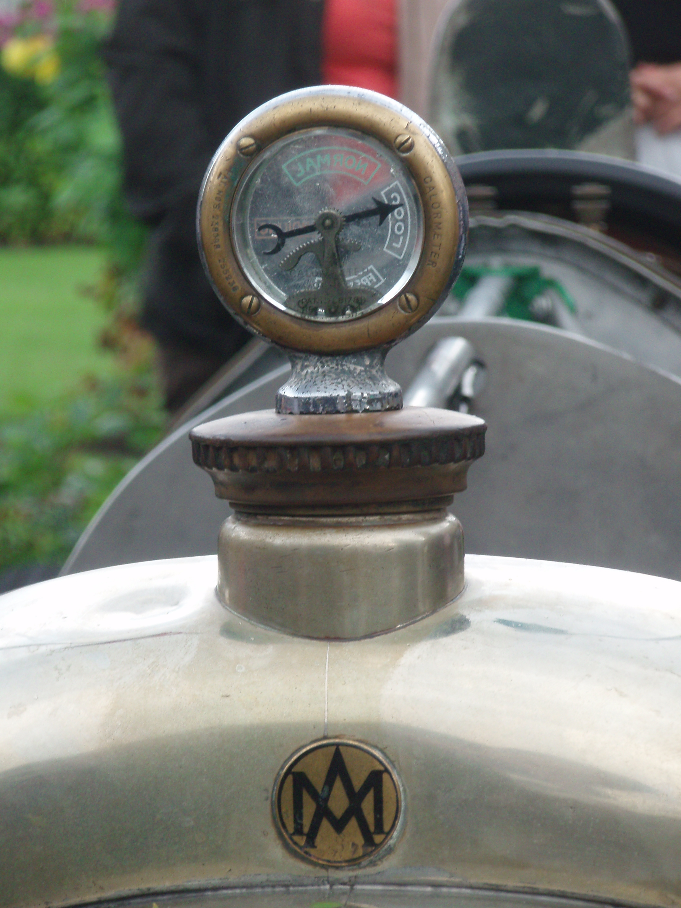 Calormeter radiator cap and "AM" logo on the unique 1923 Aston Martin "Razor Blade" record and race team car.